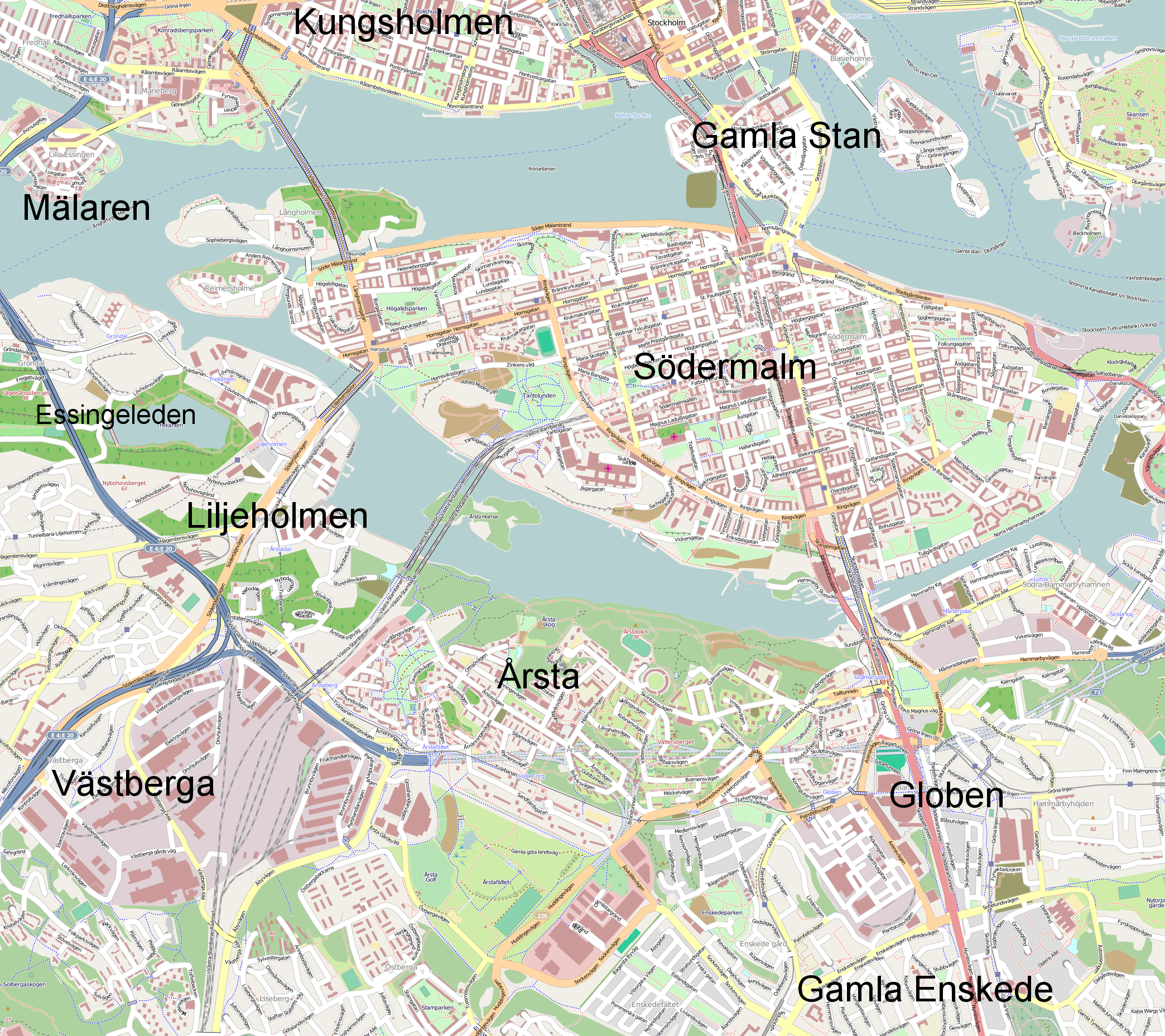 A part of central and southern Stockholm